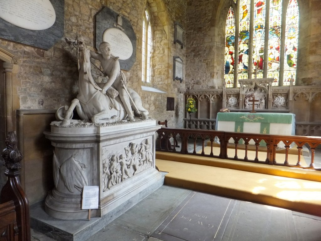 Inside St Luke's church, Gaddesby, Leicestershire: "the only equestrian statue in an English church" - except for that that of Category:Equestrian statue of Edward Horner in Mells Church, Somerset! Near life-size marble sculpture of a dying horse and rider on a marble chest, created by J Gott in memory of Colonel Edward Cheney in 1848.